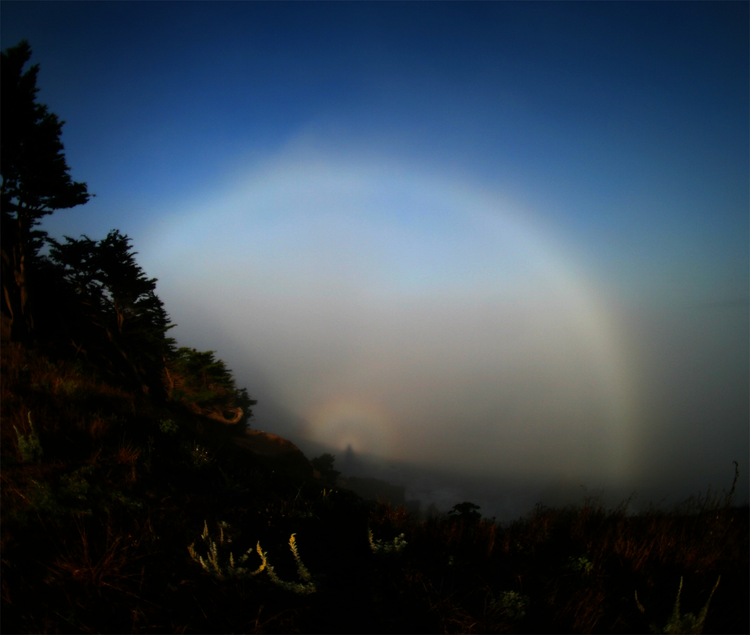 The picture shows solar glory, Spectre of the Brocken and Fog Bow